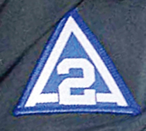 Second Operational Command, Republic of Korea Army.